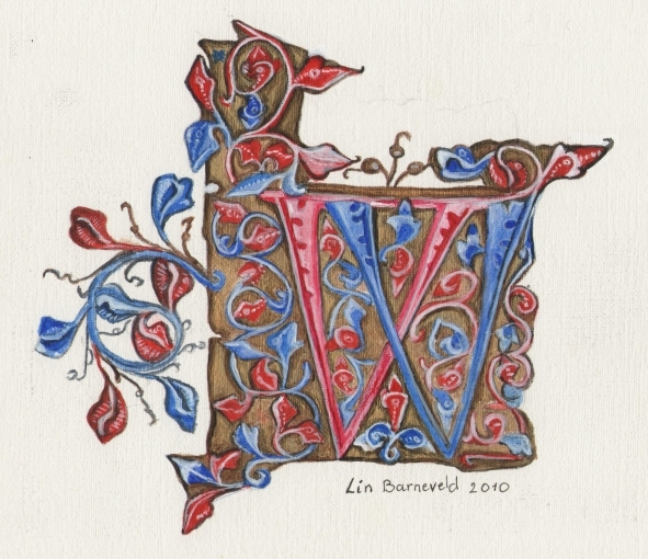 Copy of the initial W from the opening of The Knight's Tale in the Ellesmere Chaucer. Acrylic painting by Lin Barneveld (2010).